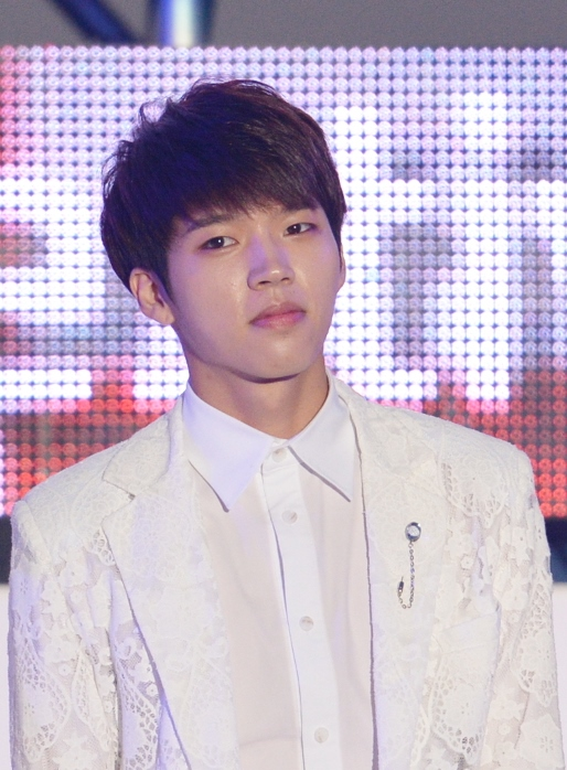 Woohyun at The Brilliant Motor Festival K-pop Concert on July 5, 2014.